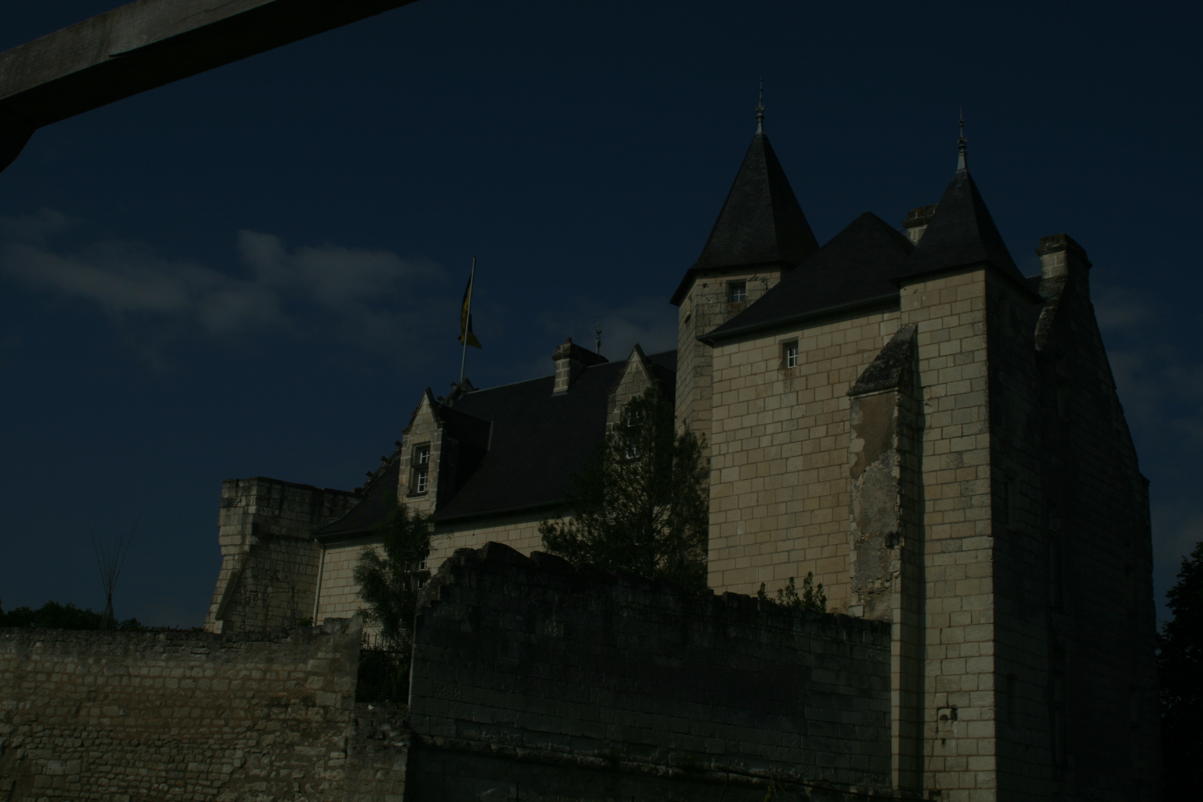 Chateau de la Motte D'Usseau. Usseau, France